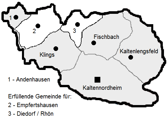 Town subdivision of Kaltennordheim